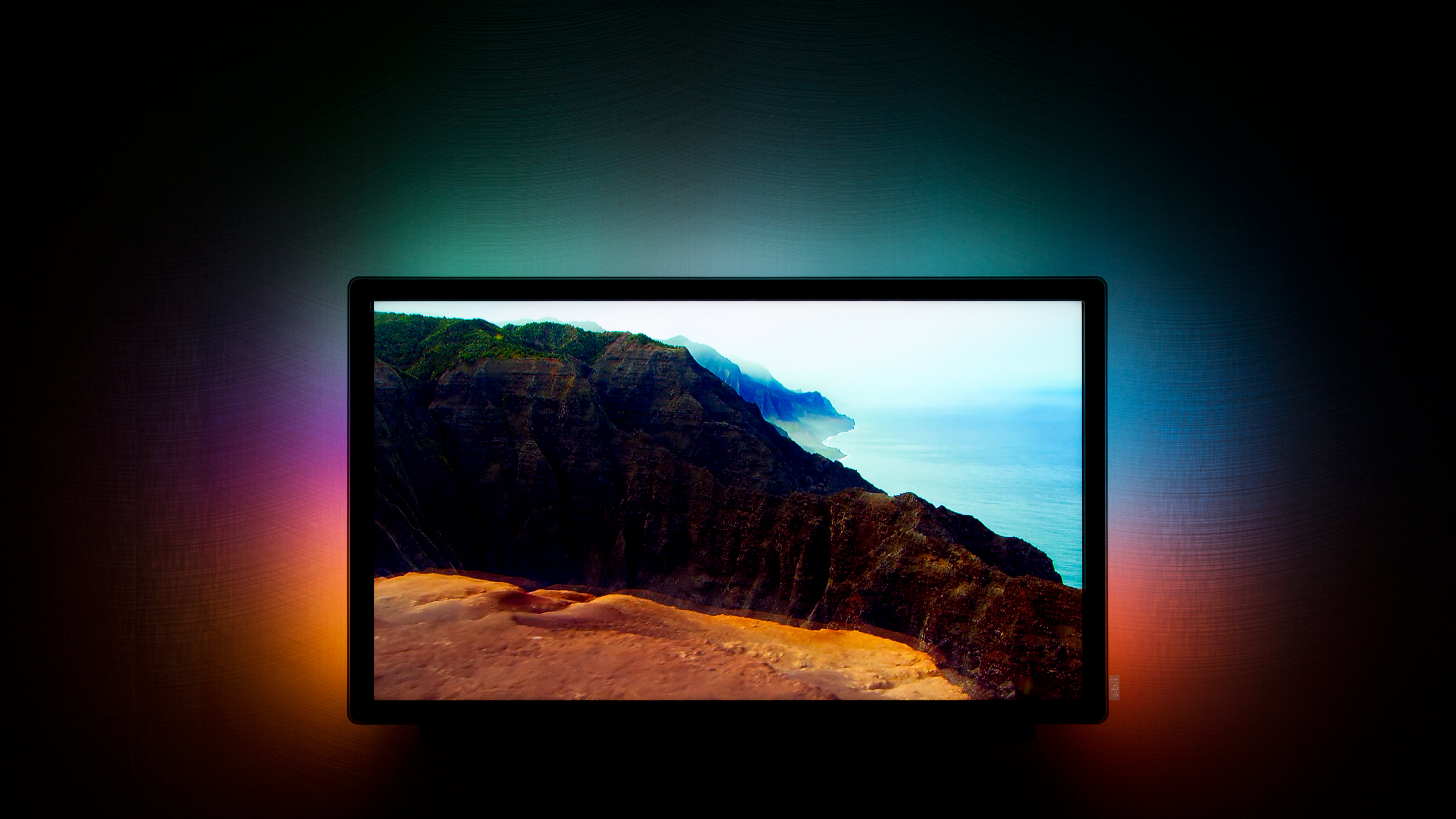 Philips 46PFL9705H Ambilight Spectra 3 preview